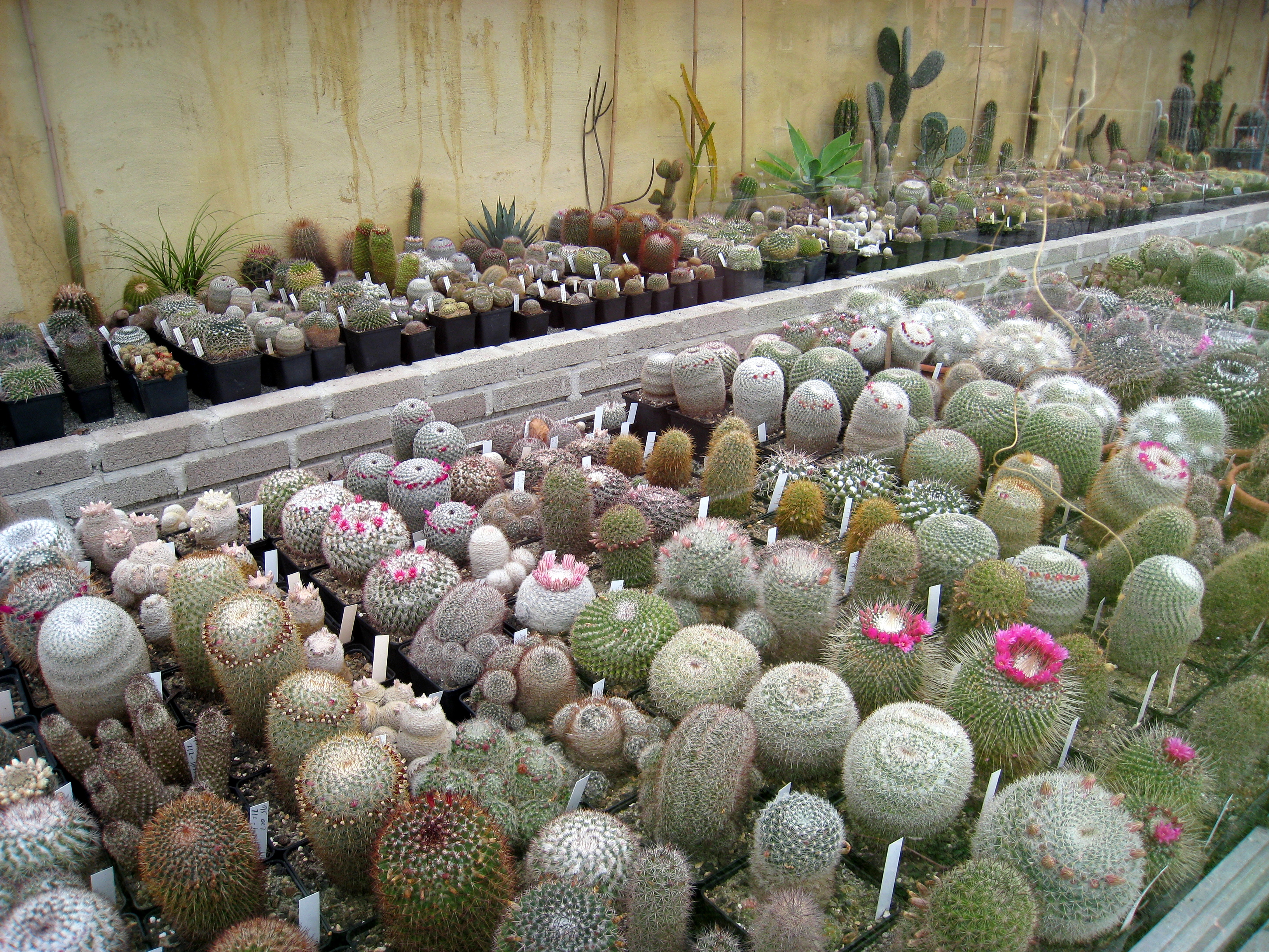 Innsbruck Botanical Garden, Innsbruck, Austria.